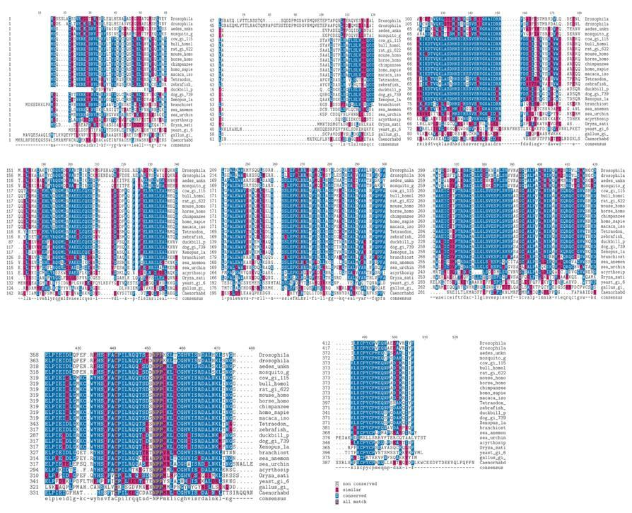 Multiple sequence alignment of the protein CAD28476 and its othologs